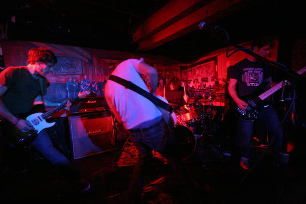 the Lonely Forest live at the Sunset Tavern Seattle, WA